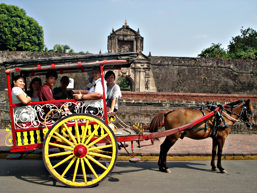 Fort Santiago is part of the walled city of Intramuros. It is one of the most well-known historical sites in Manila as this is where the national hero, Dr. Jose Rizal, was once imprisoned before he was executed.